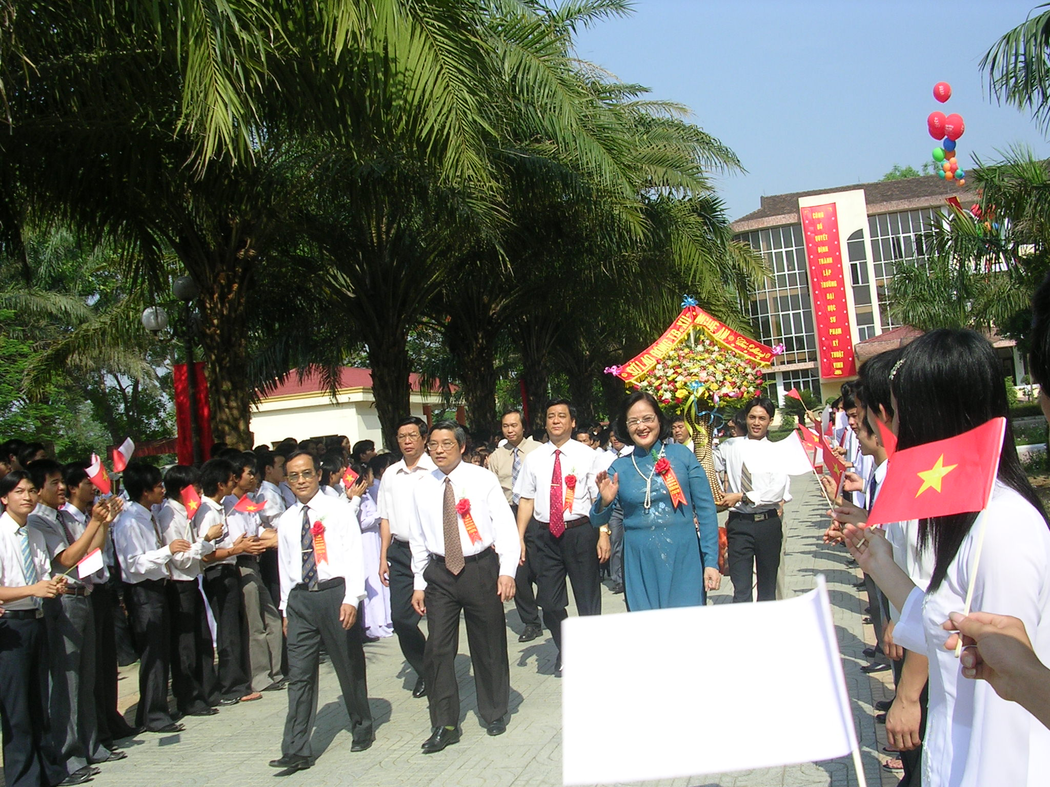 Minister Nguyen Thi Hang